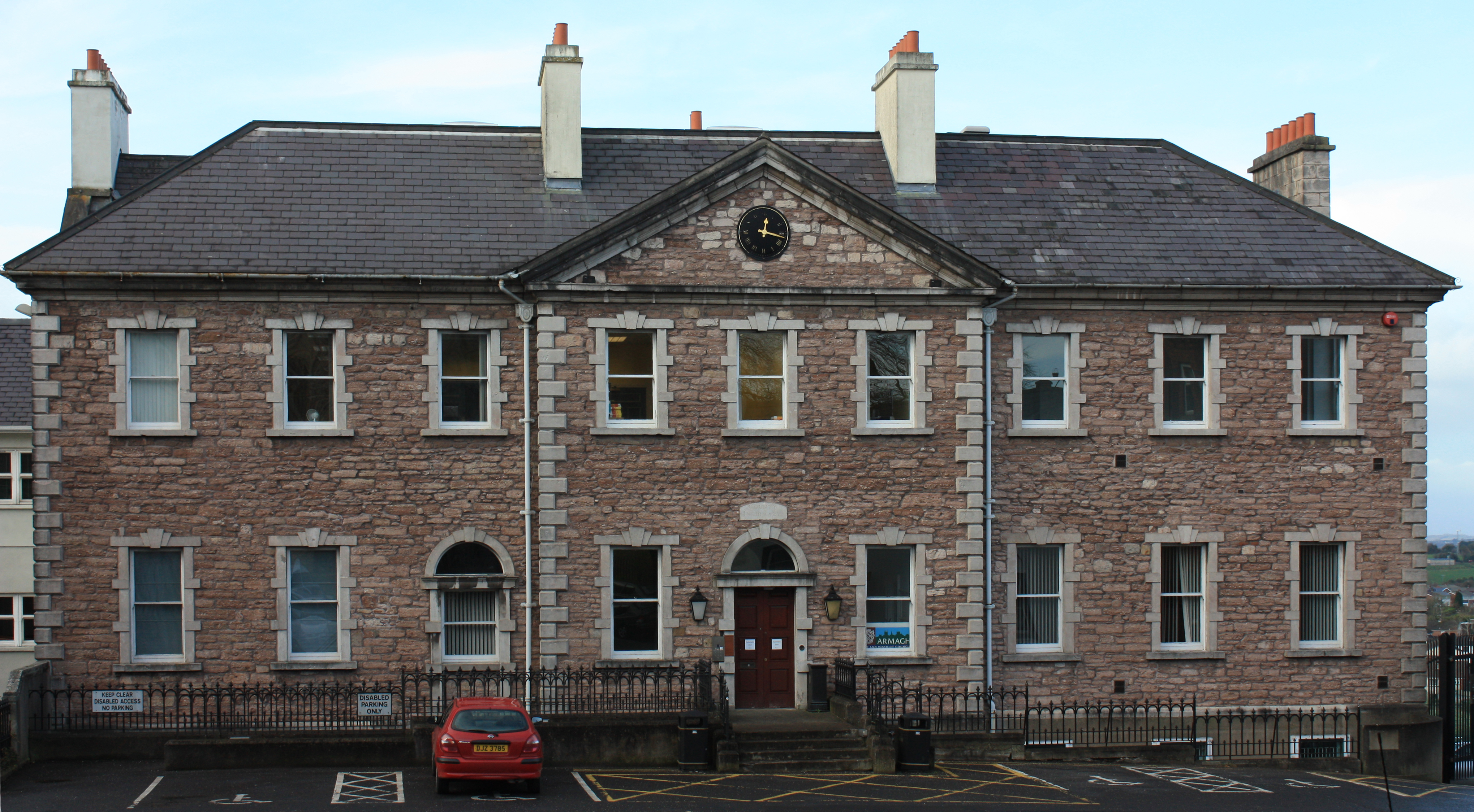 (Former) offices of the North/South Ministerial Council, Abbey Street, Armagh, County Armagh, Northern Ireland, November 2009